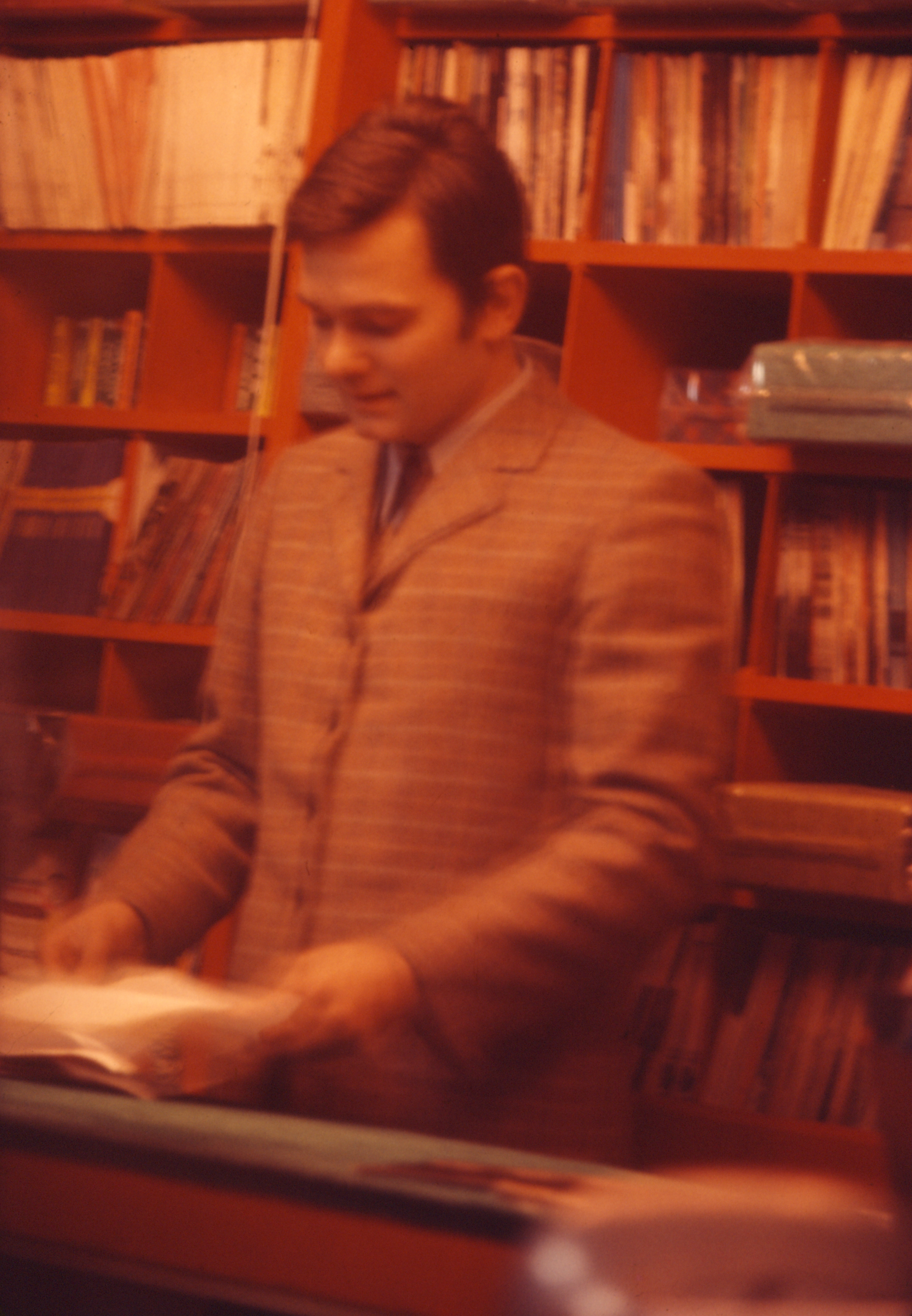 Cesare La Loggia, record shop Milano Galleria Unione, '60